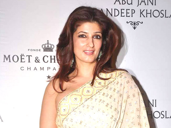 Twinkle khanna